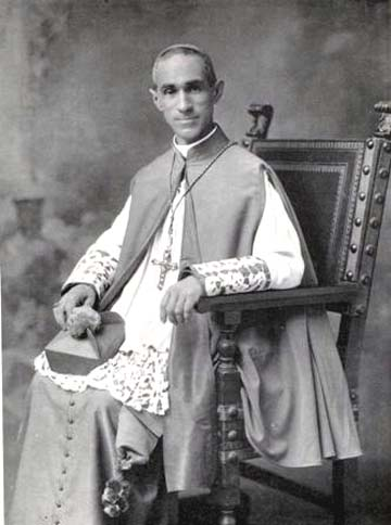 Portrai of Luigi Maria Olivares